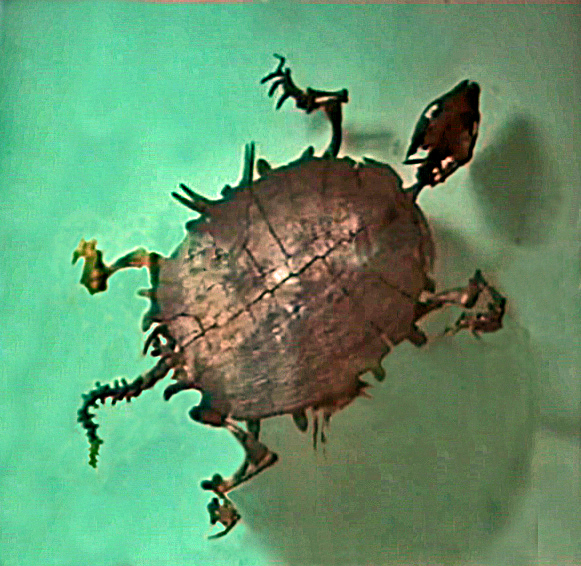 Trionyx messelianus from Messel Pit Fossil Site at the Naturmuseum Senckenberg